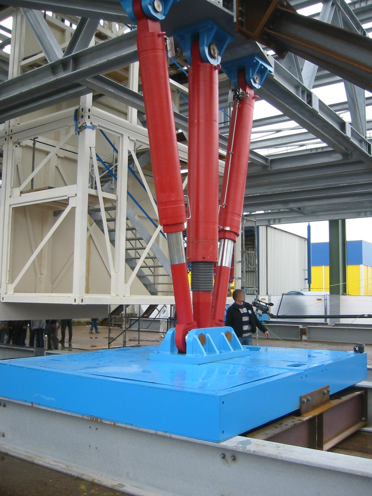 hydraulic system with concrete foot to lift up